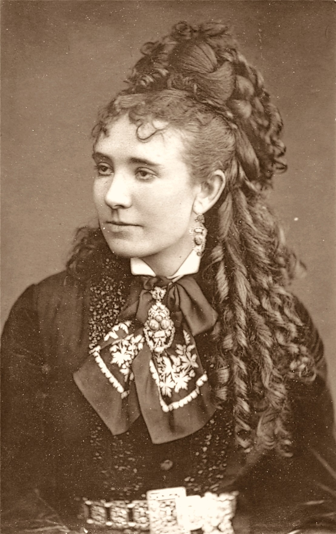 Miss Ada Ward , English actress and singer.